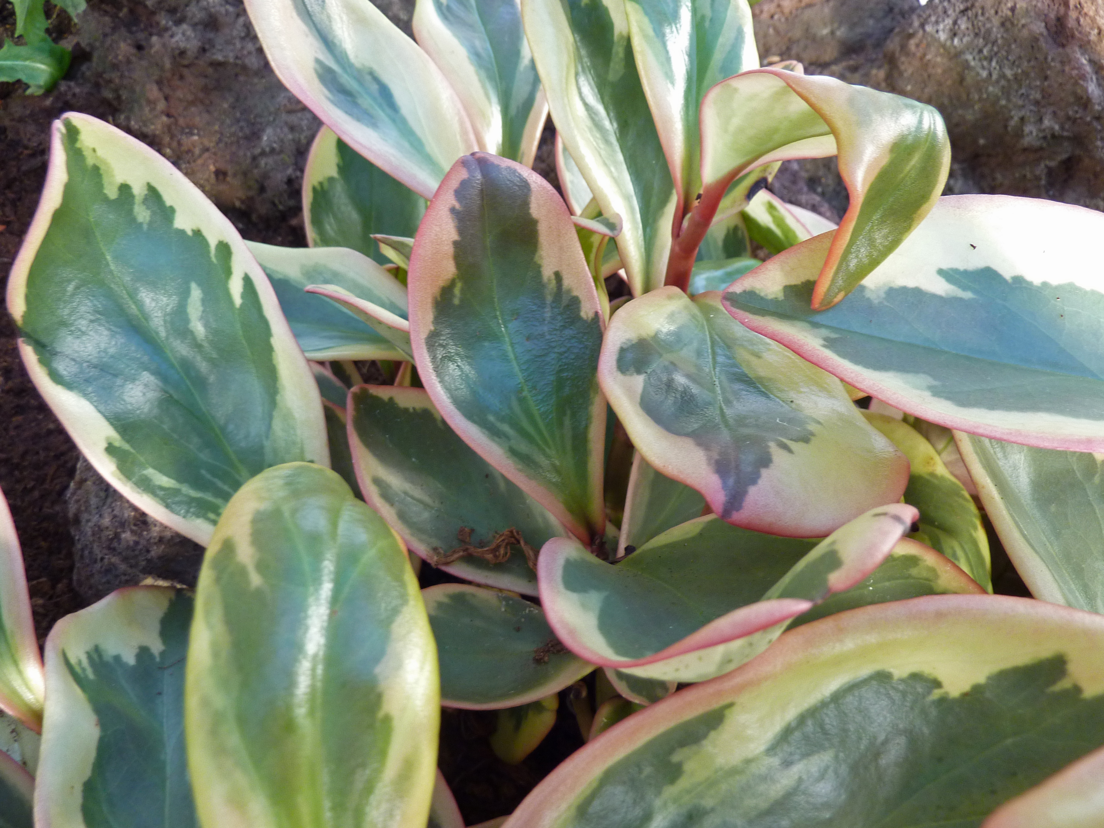 Peperomia clusiifolia "Jely" in the Botanical Garden, Berlin